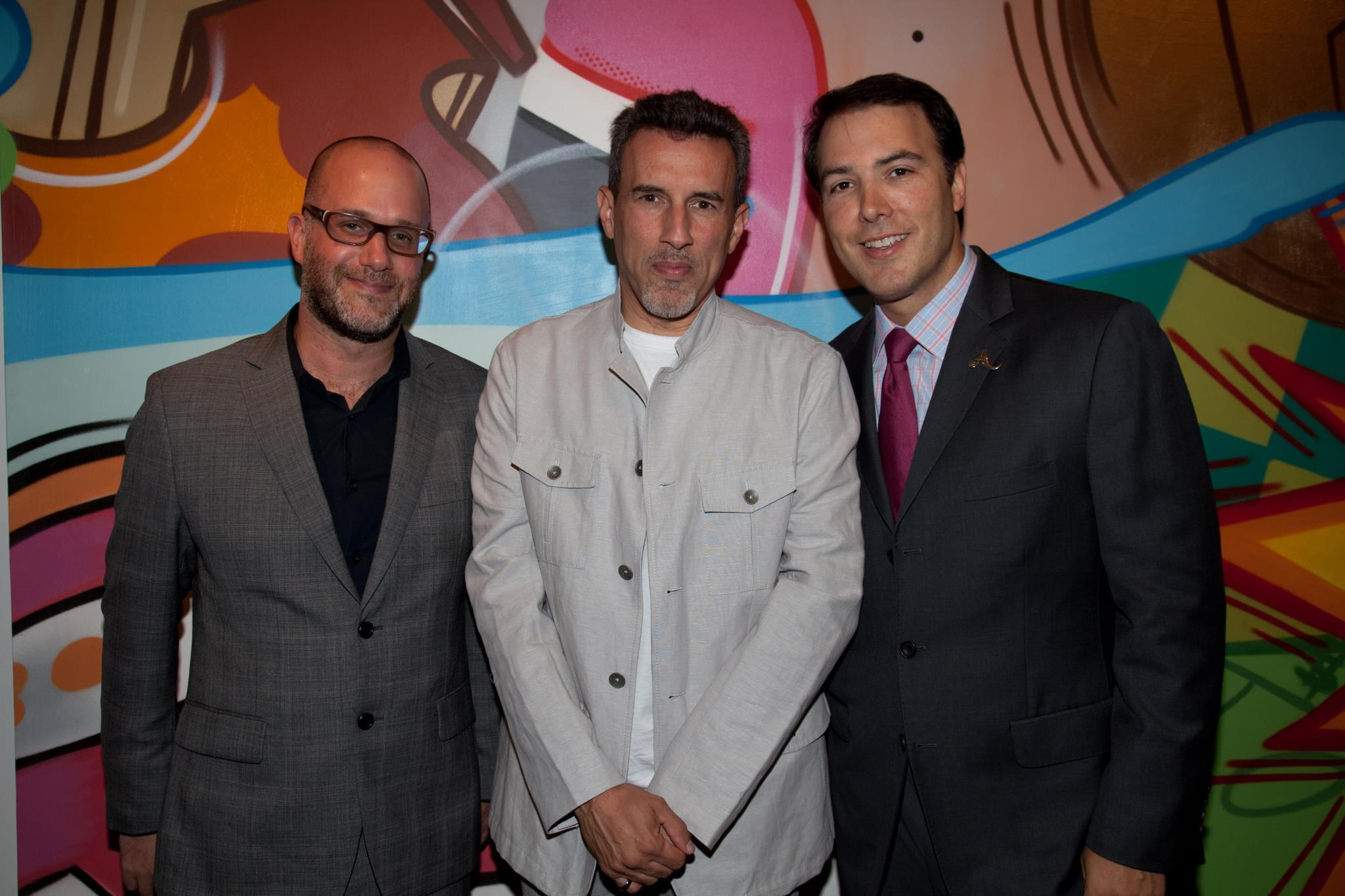 Evan Zimmermann at Crash Exhibition